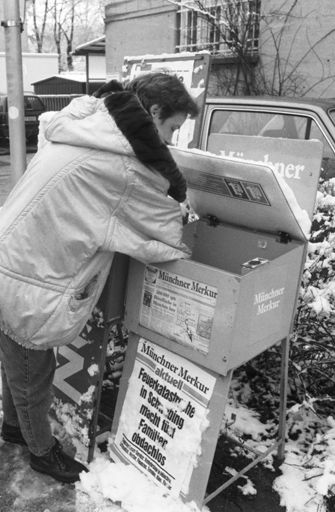 Local paper #29: Seller